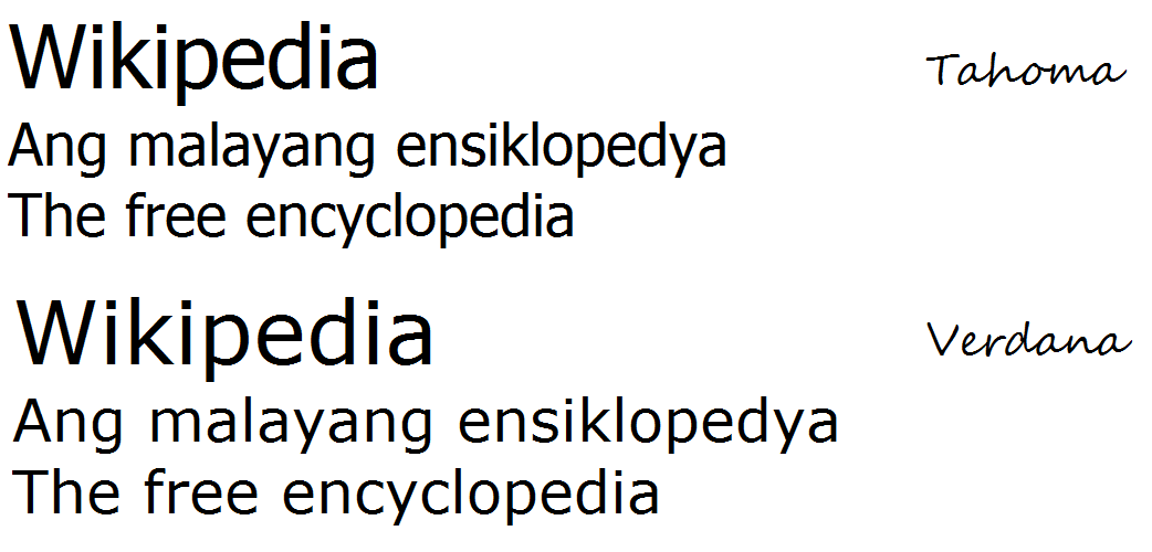 The comparison of Tahoma and Verdana using Wikipedia text (English and Tagalog)